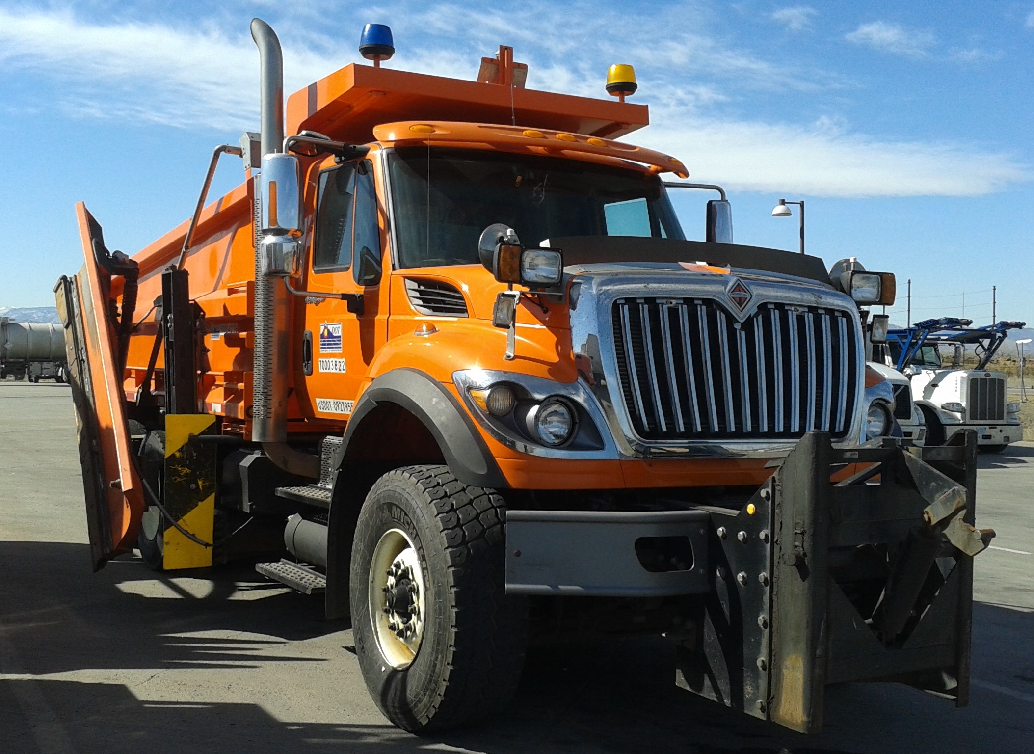 CDOT dump-plow truck in Ft. Collins, CO